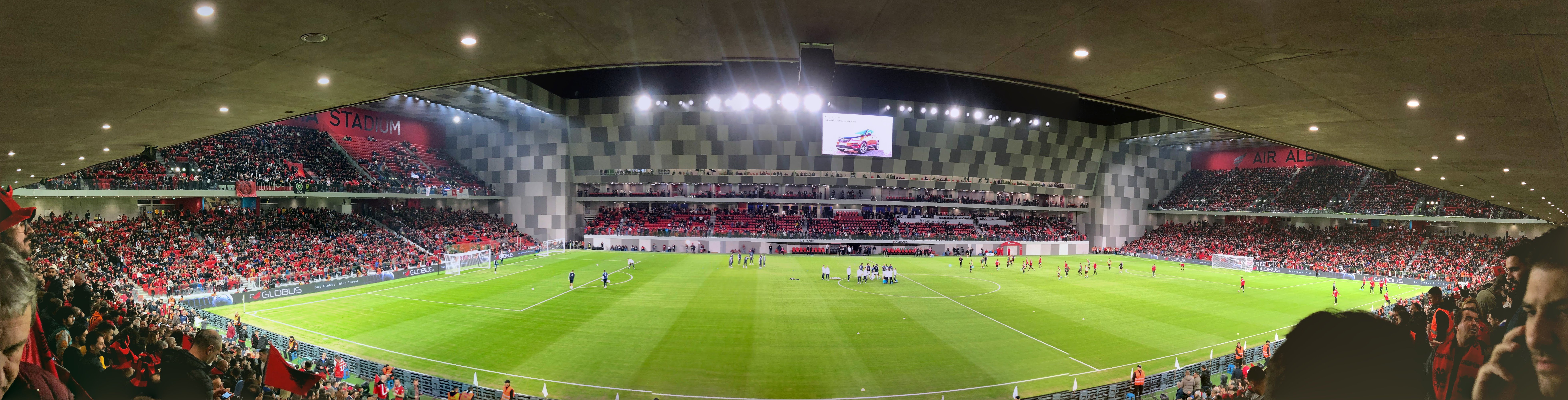 view of Air Albania Stadium in its opening match Albania vs France